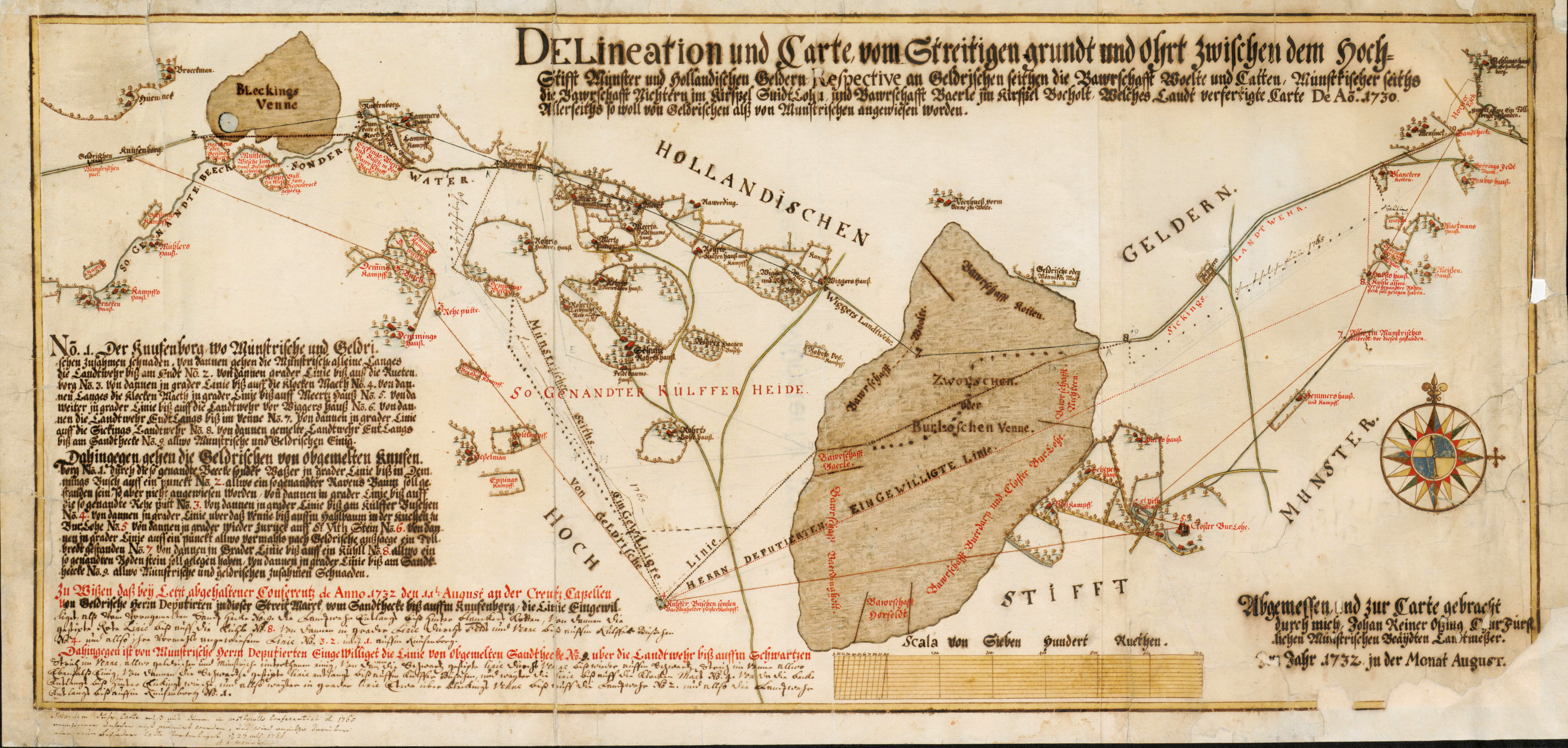 Map showing the line of the border between Prince-Bishopric of Münster and Guelders as it was seen by the two parties in the years 1730/32.